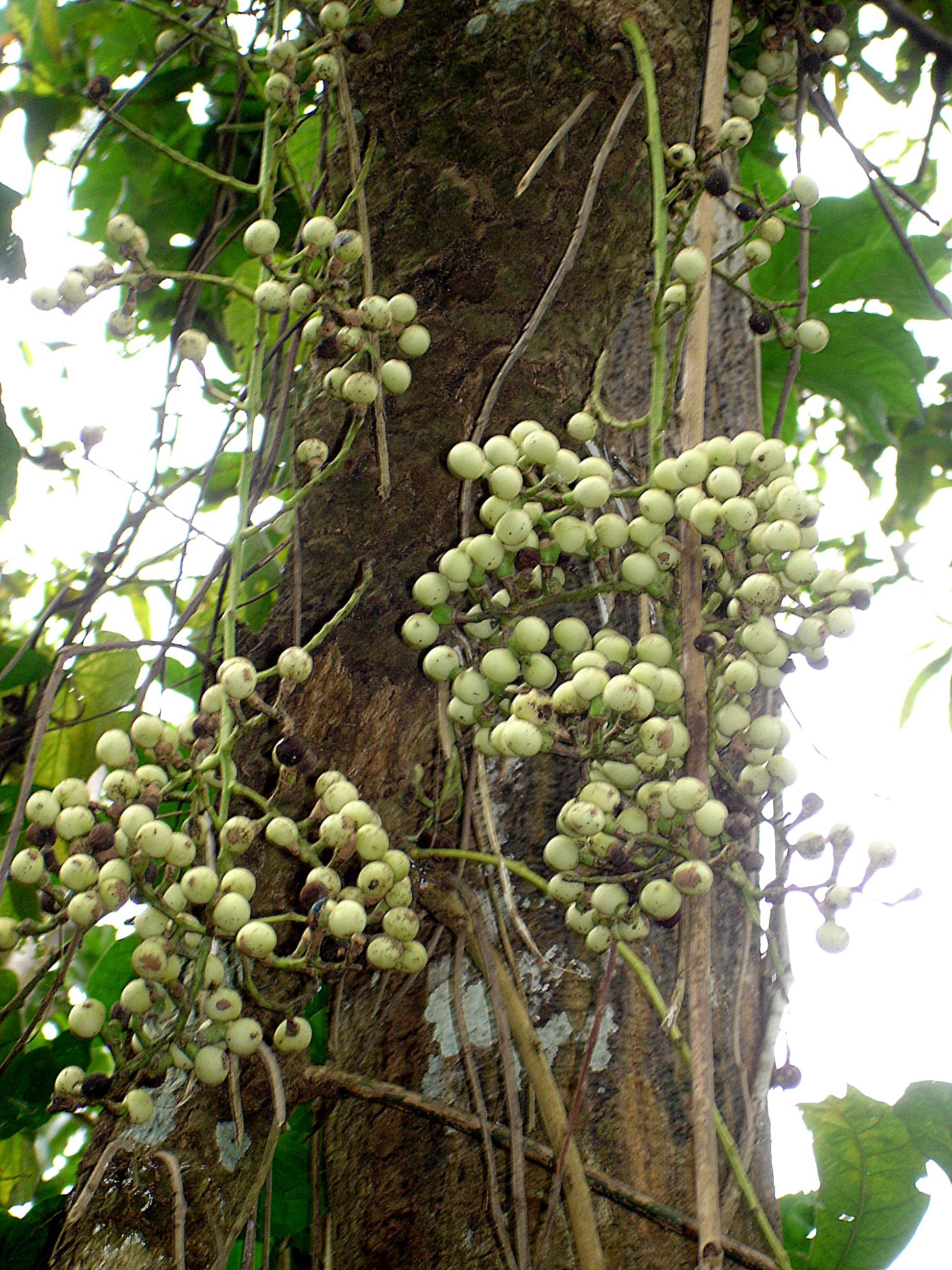 Indian berry plant (Anamirta cocculus) in fruit, northern part of Buton Island, Southeast Sulawesi, Indonesia